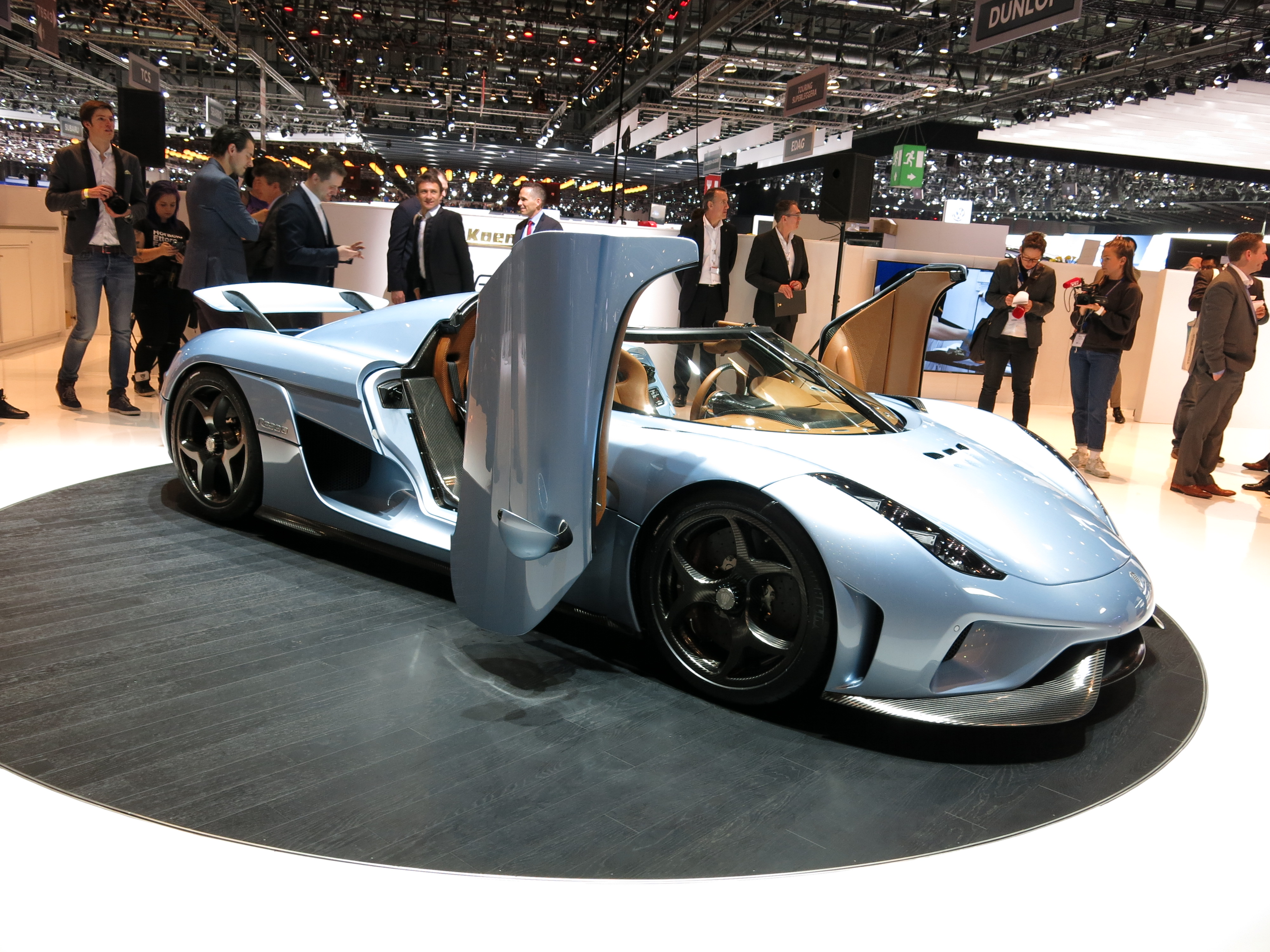 Geneva Motor Show 2015 (photo taken on the first press day)